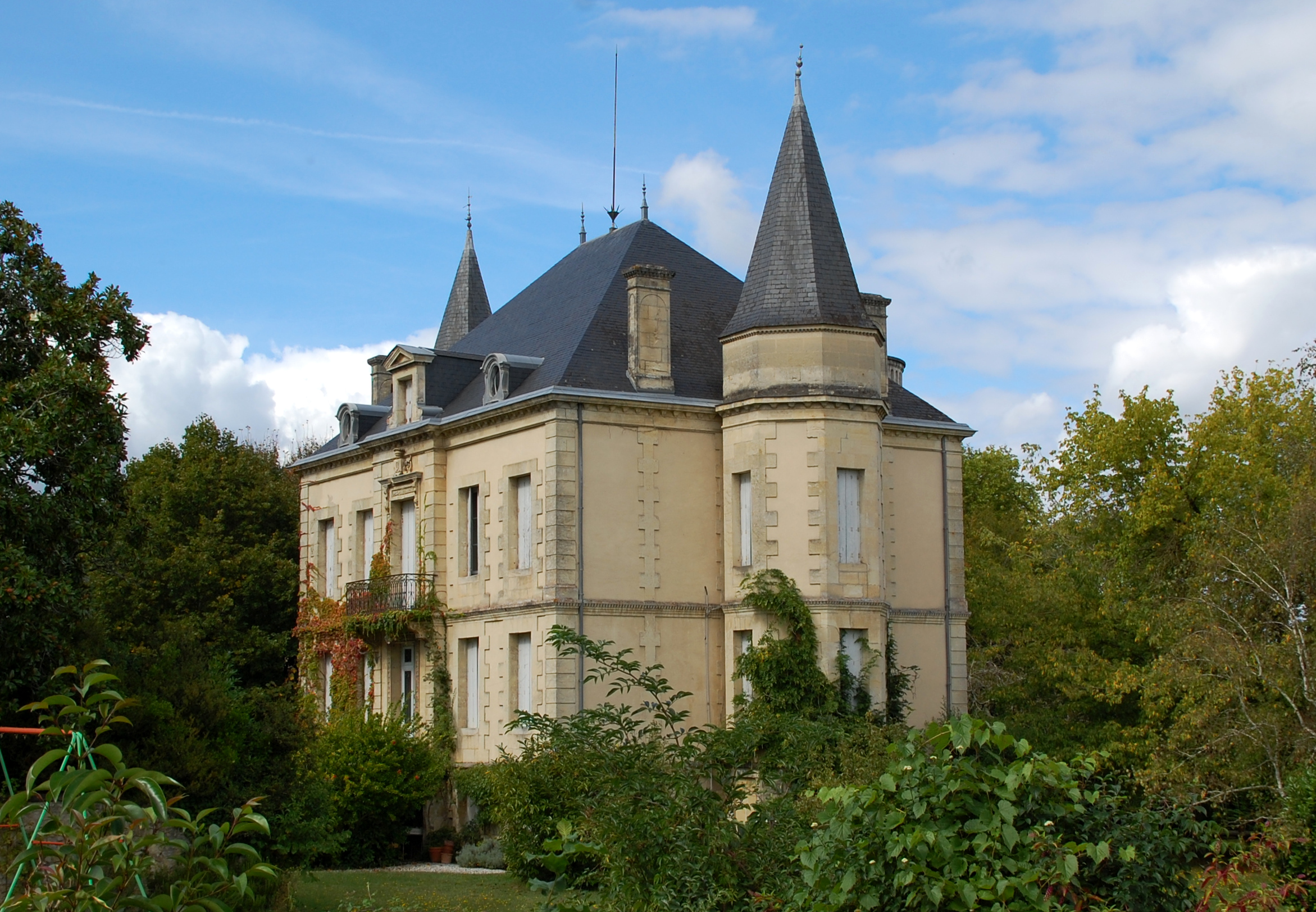 Martignas Castle in Beautiran